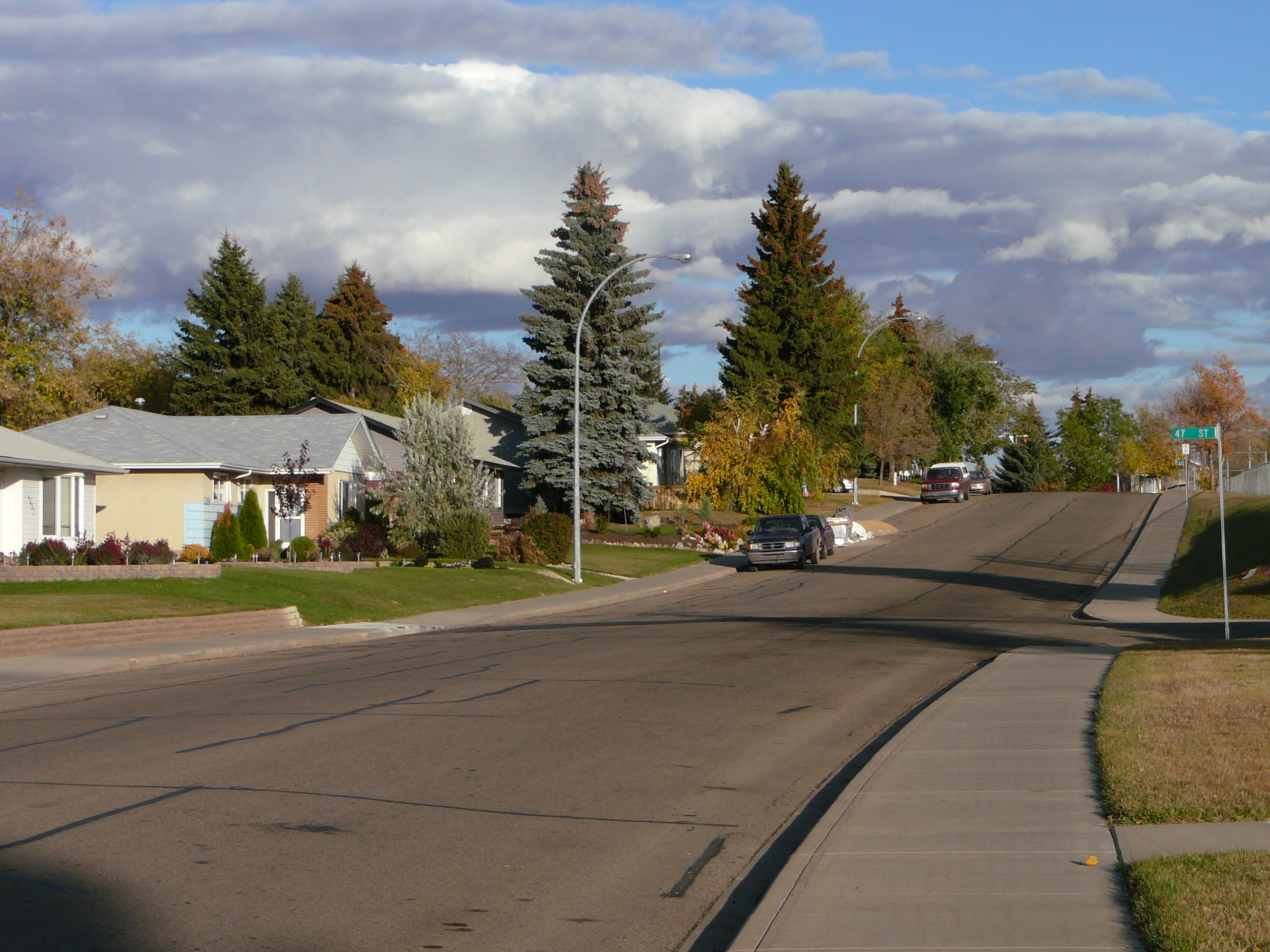 I created this picture myself in September 2007. It is a picture of a residential street in the Edmonton neighbourhood of Gold Bar.